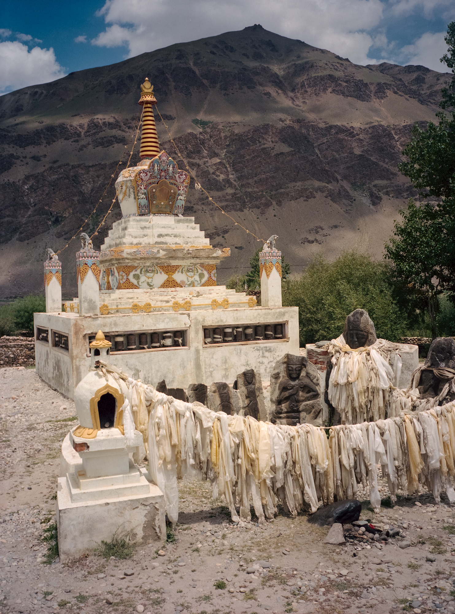 Holy Crematory Grounds of Sani monastery, Zanskar, India